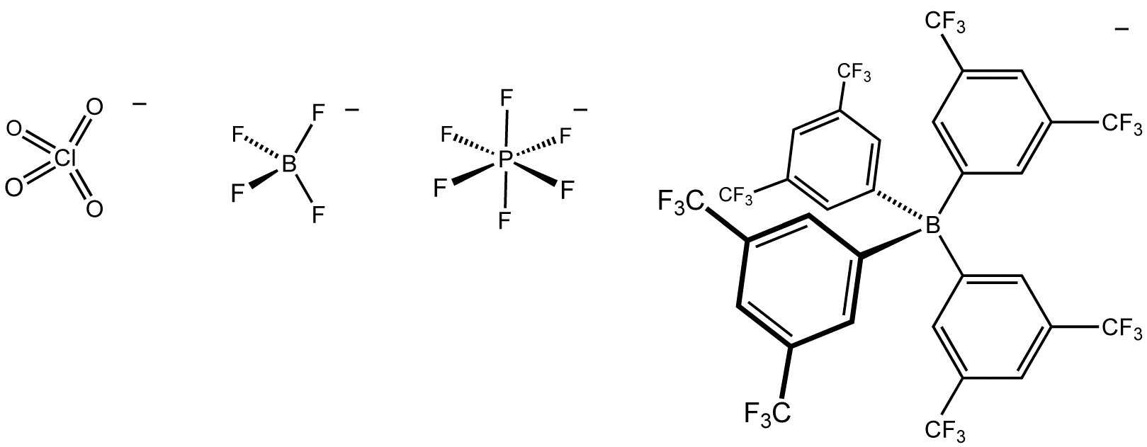 chemical structures of weakly coordinating anions